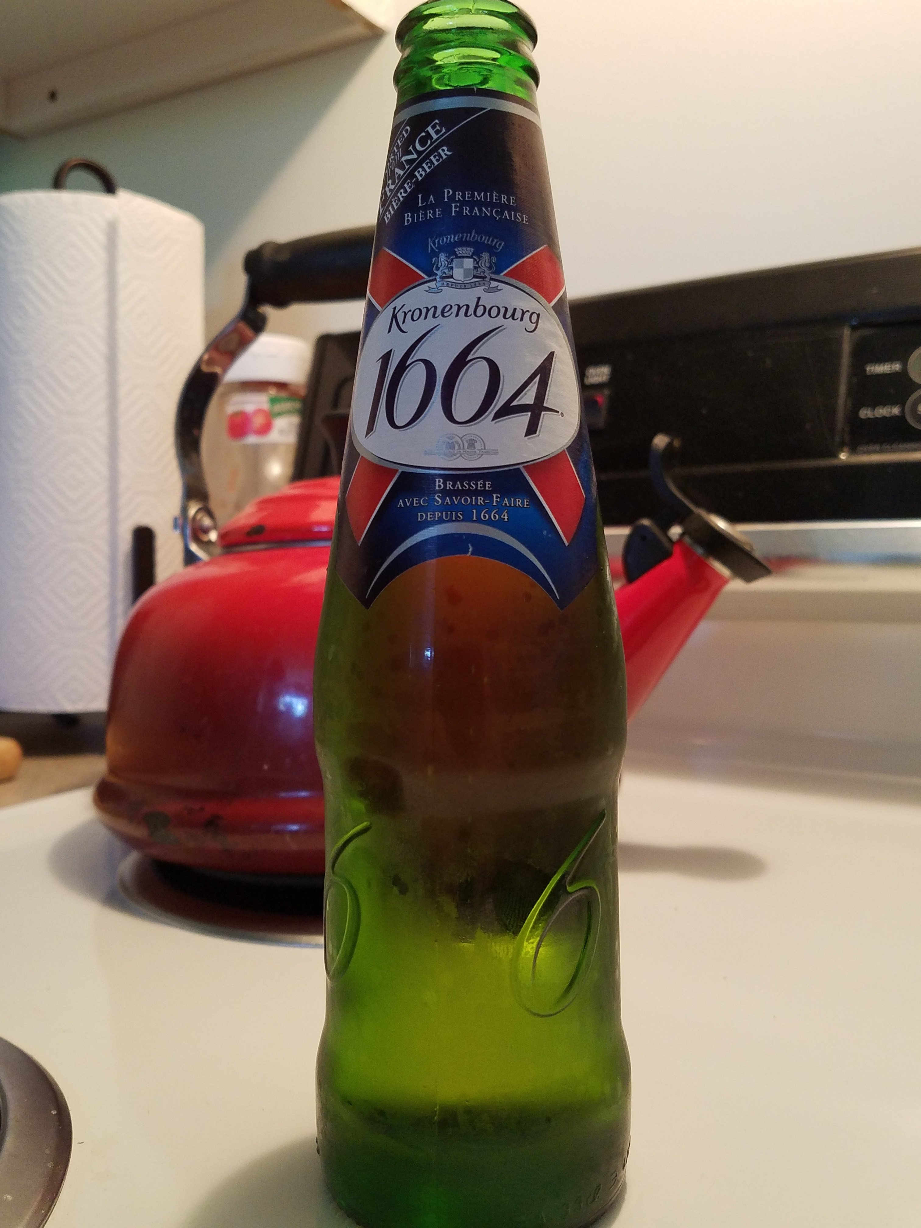 A Kronenbourg Beer Bottle.